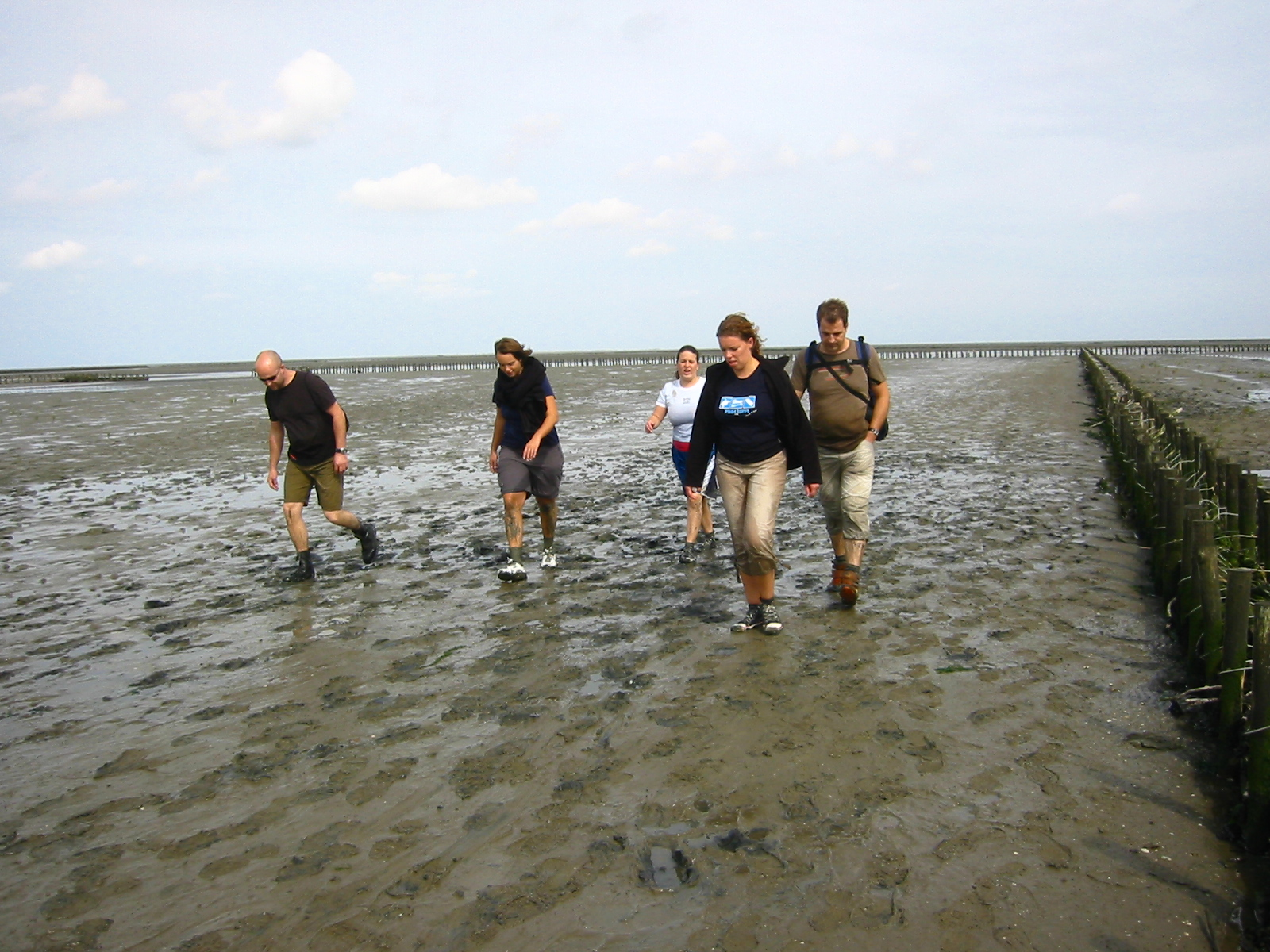 Hiking on the mudflats at Pieterburen, Groningen.